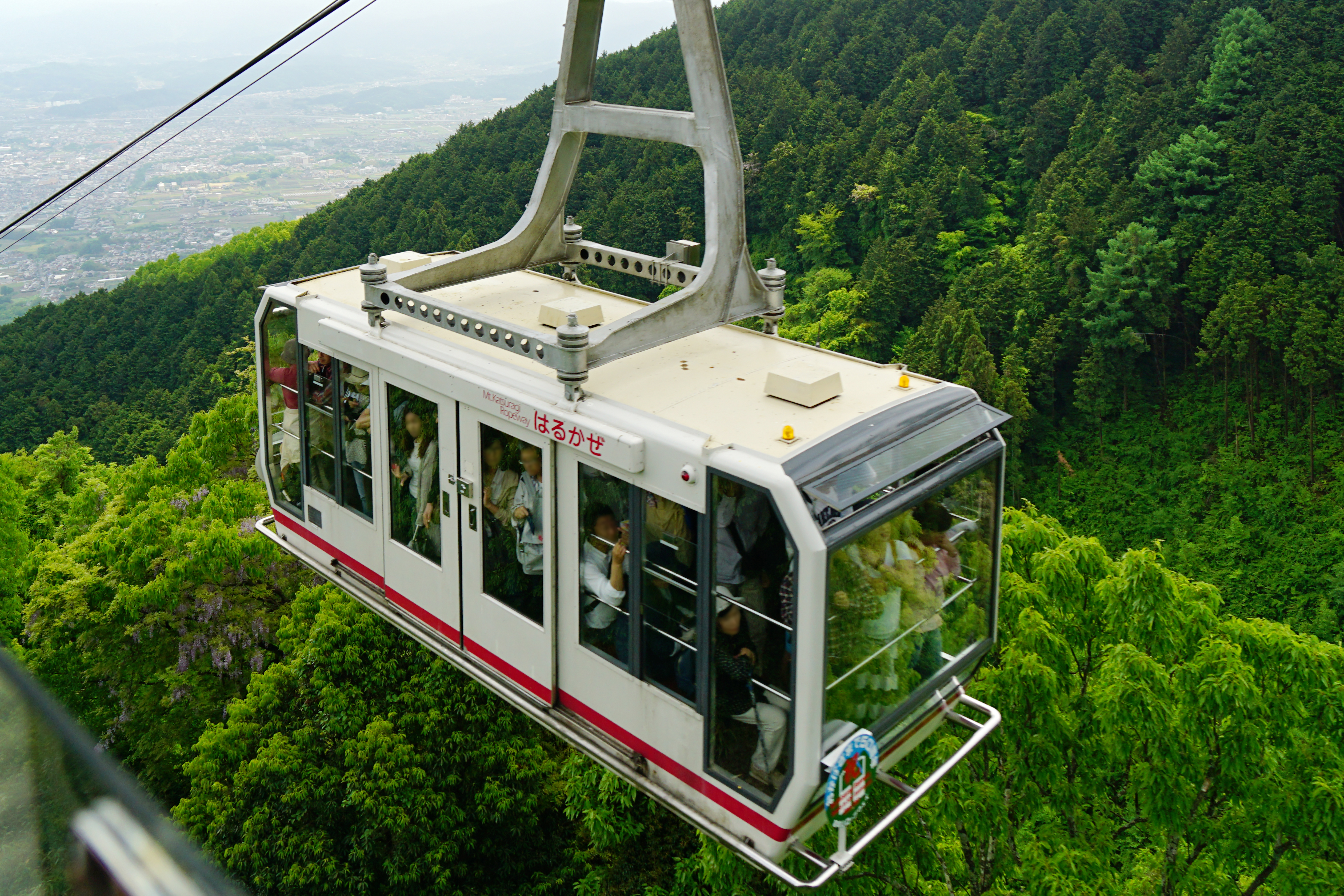 Kintetsu Katsuragi Ropeway Line in Gose, Nara Prefecture, Japan